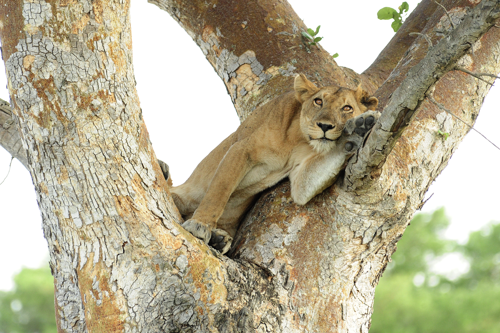 Conserving Uganda's last remaining lions is a global responsibility. The country's lions have declined by almost 40 percent in less than a decade. Only 415 of the big cats remain in the network of national parks, and in the largest park of all, Murchison Falls National Park, there are just 132 left. Credit: Julie Larsen Maher, Wildlife Conservation Society